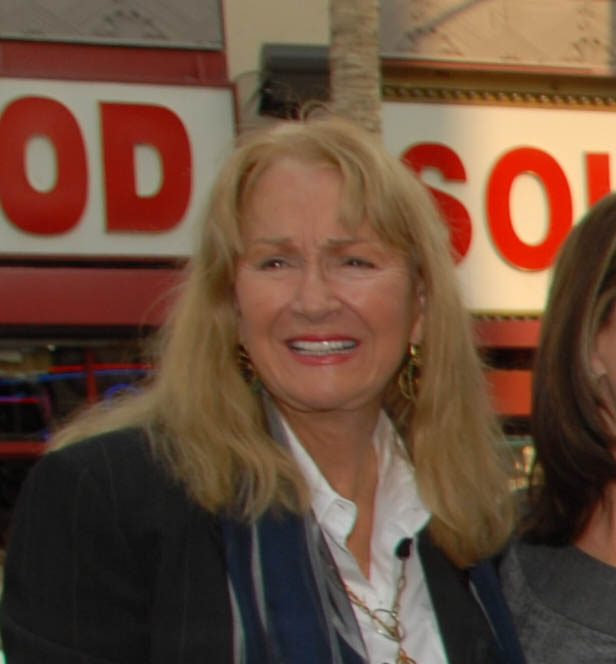 American actress Diane Ladd participating in the Ford Escape Hybrid caravan from the Hollywood & Highland complex to a SAG Star Ceremony on Hollywood Boulevard.